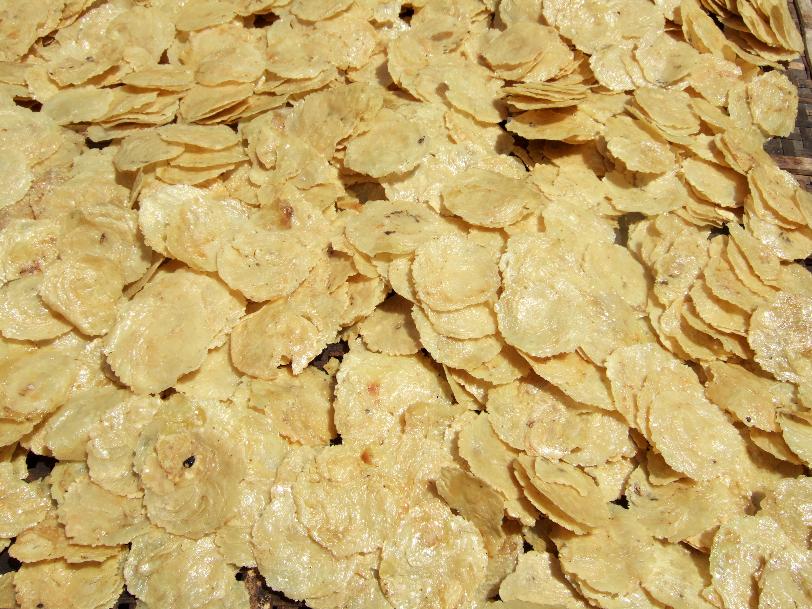 Indonesian cracker emping, dried under the sun. 油で揚げる前の生のウンピン